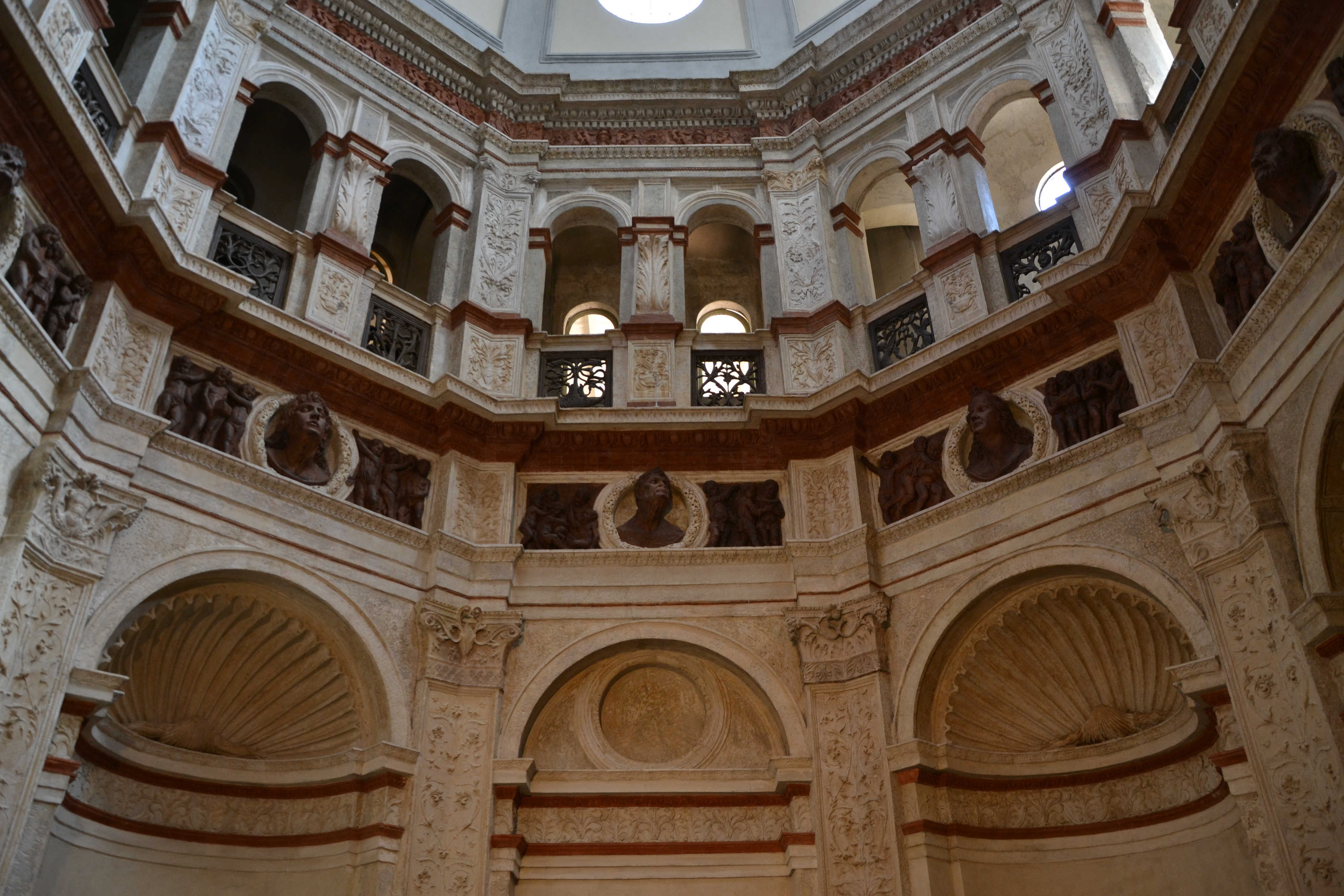 Santa Maria presso San Satiro (Milan) - Baptistry by Donato Bramante - clay sculptures by Agostino de' Fondulis